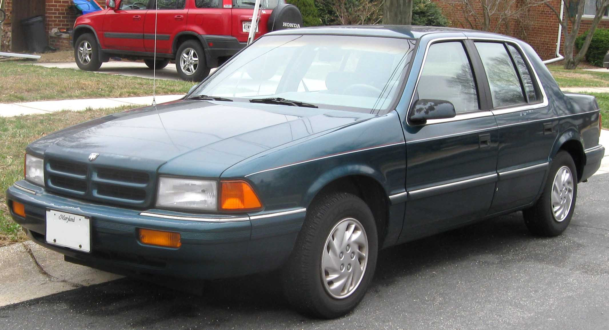 1993-1995 Dodge Spirit photographed in Rockville, Maryland, USA.